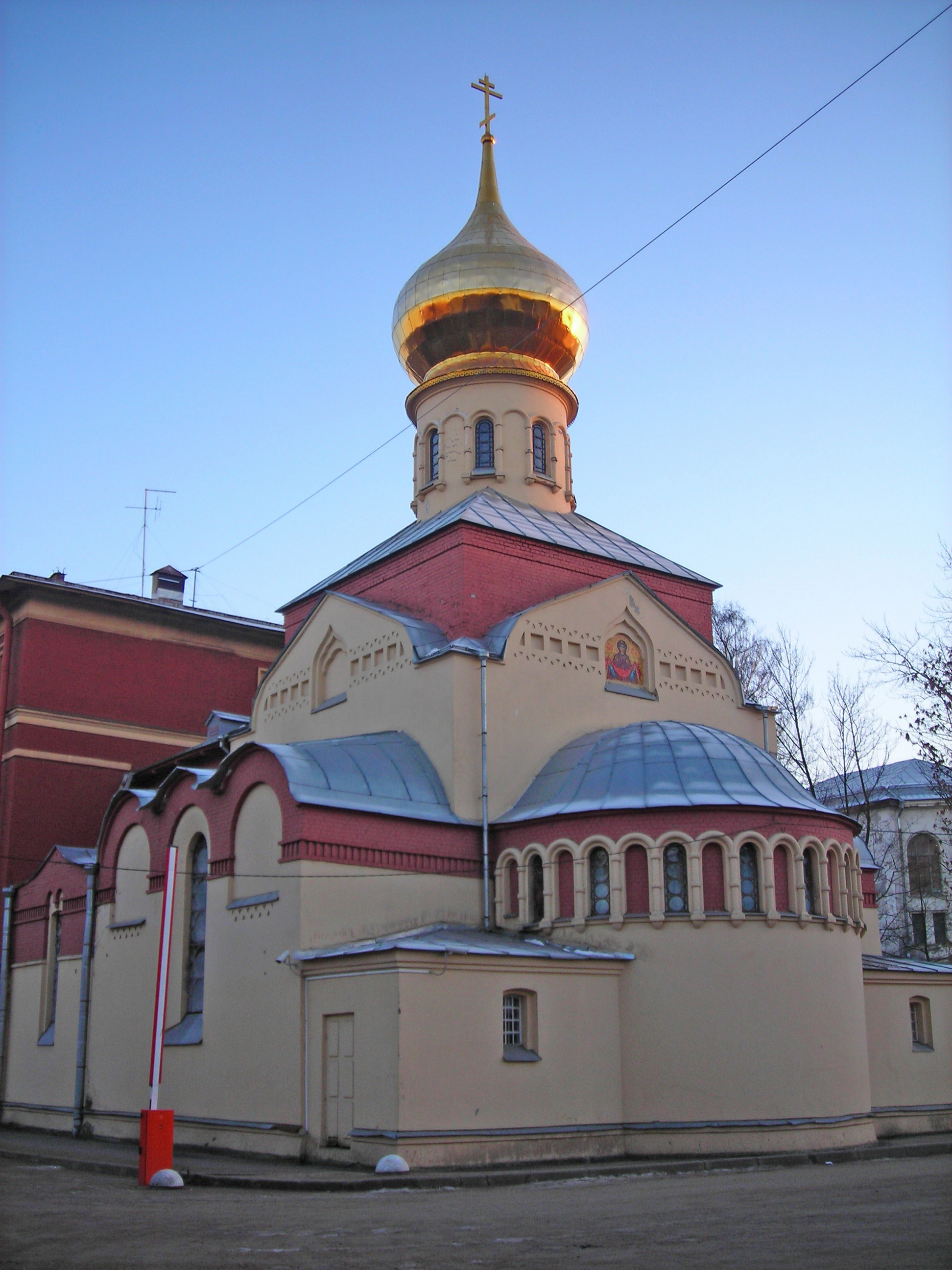 Church of Protection of Jesus's Mother, Spb